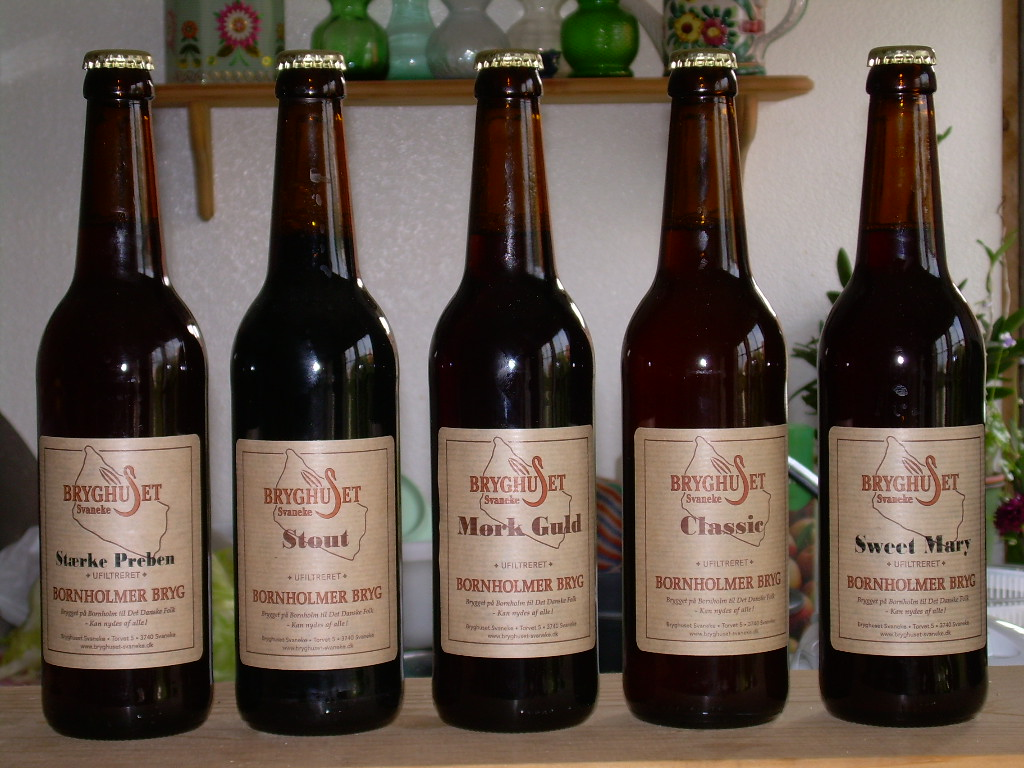 Selection of beers from Svaneke Brewery